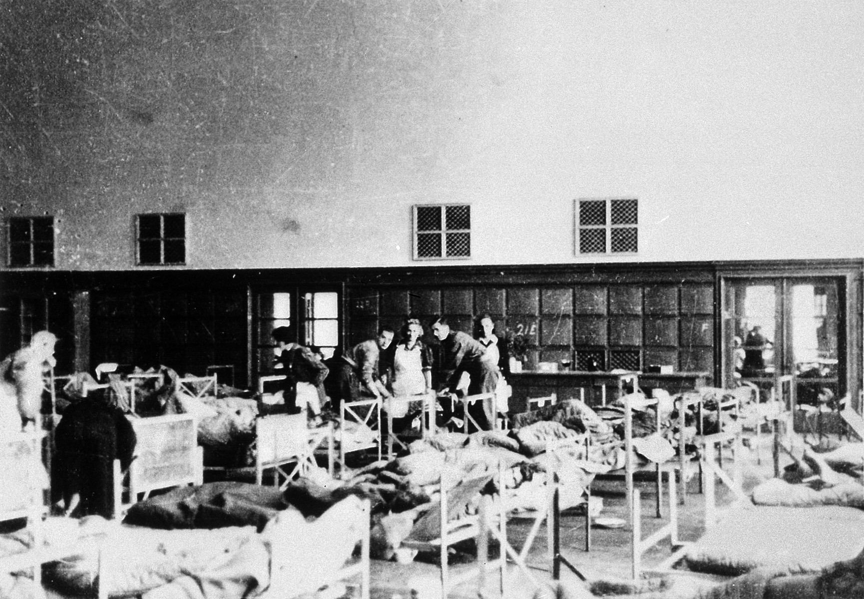 Medical students at Belsen, in the wards of a converted building 'round house hospital', looking after patients. Archives & Manuscripts Keywords: belsen concentration camp; Allen Percival Prior; Bergen-Belsen